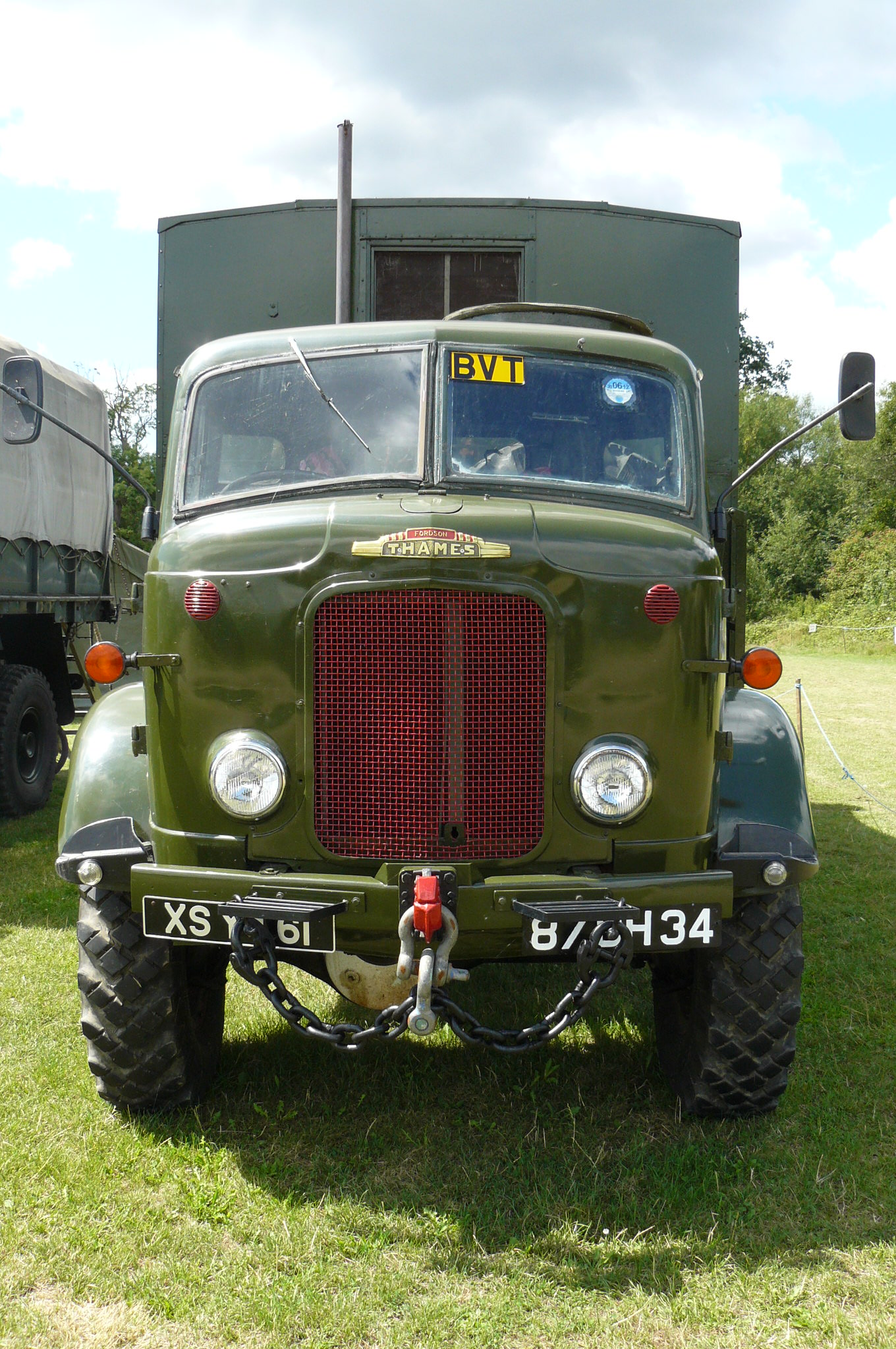 Fordson Thames, military version, used by British Army in the 1950's as truck, ambulance and artillery tractor. Seen at War & Peace show, UK, 2011